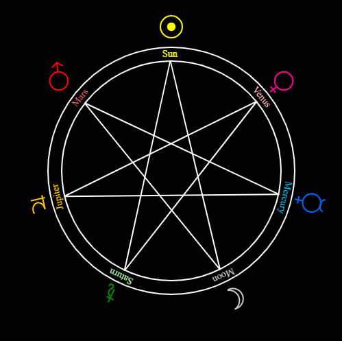 The seven celestial bodies that can be seen with the naked eye were chosen by ancient people in the creation of checkpoints in time.